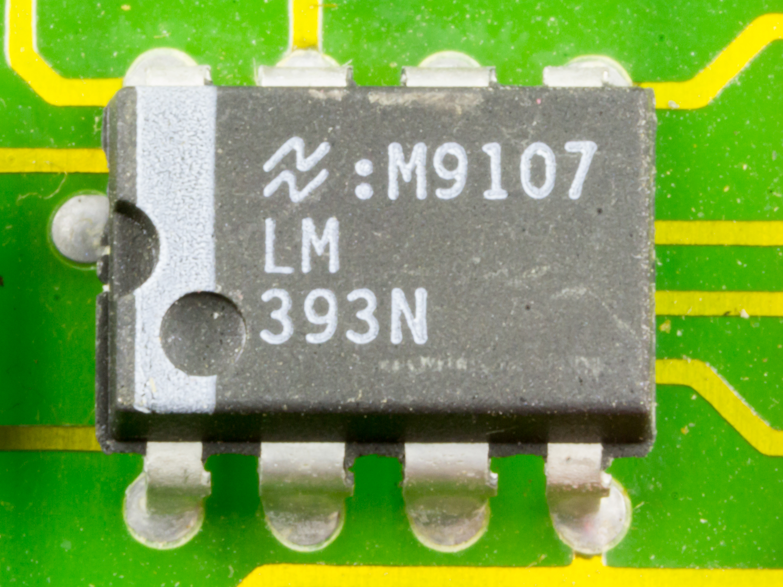 DOV-1X - National Semiconductor LM393N (Low Power Low Offset Voltage Dual Comparators) on printed circuit board. Package: DIP 8